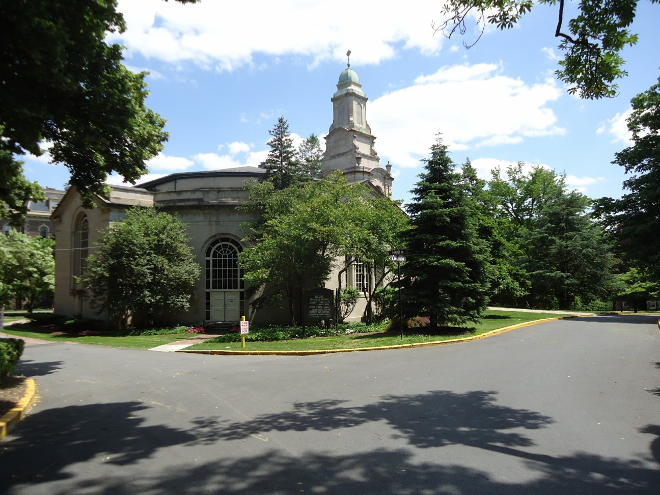 A photo from a campus tour of Lafayette College in Easton, Pennsylvania, on May 31, 2012 (correct date; 2011-06-01 is incorrect).